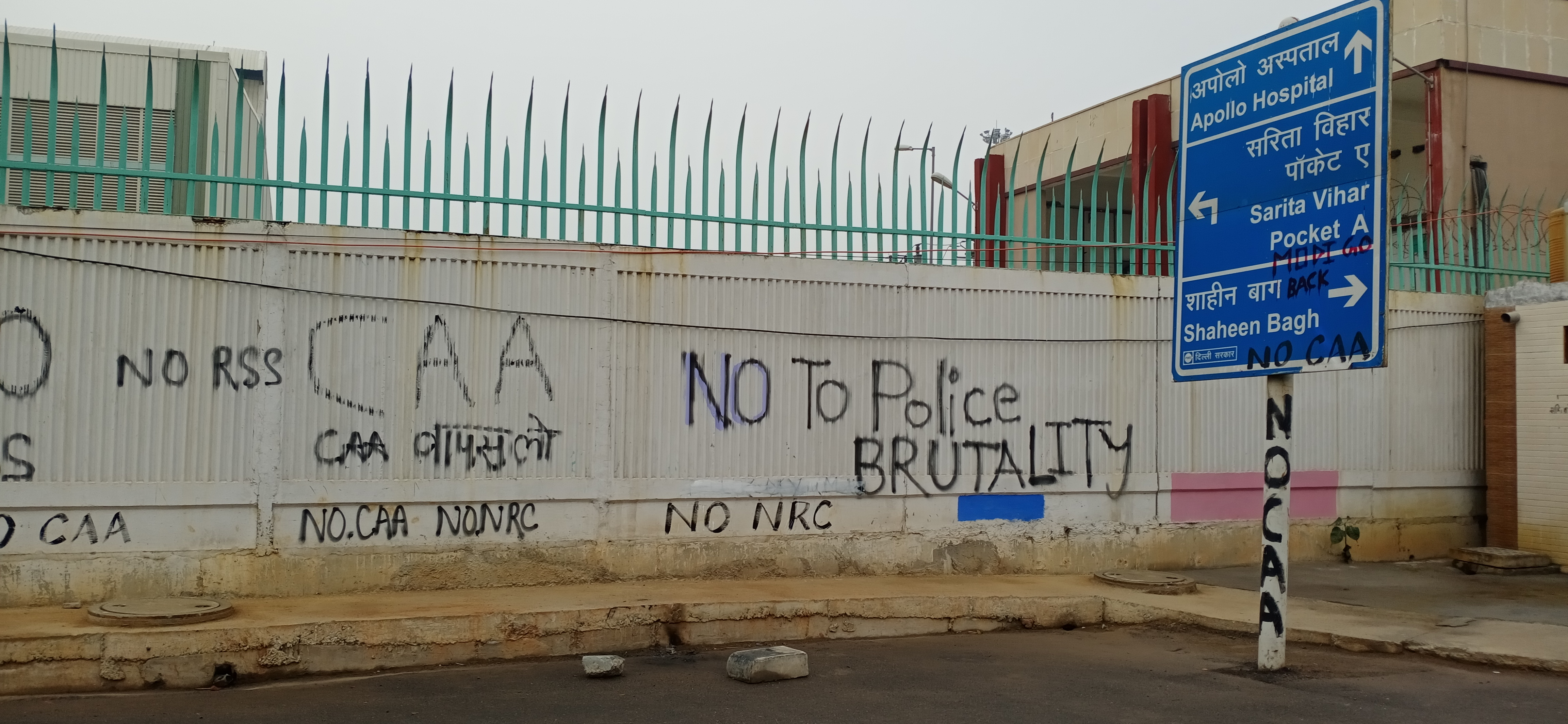 No to police brutality no caa no nrc graffiti on metro wall shaheen bagh protests 8 jan 2020